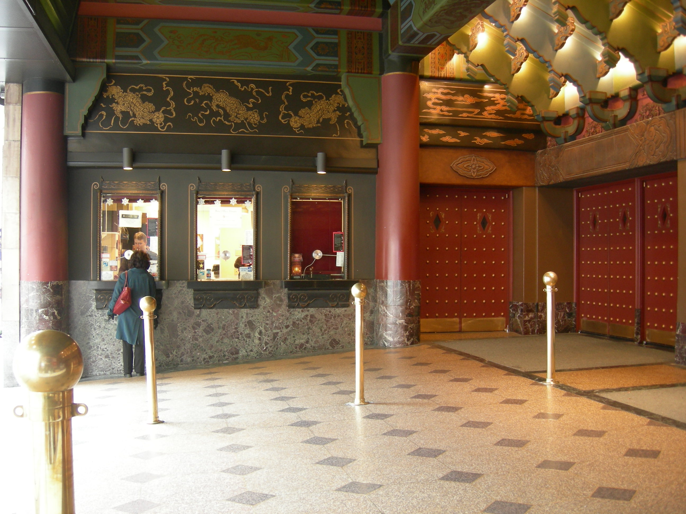 Box office and entrance of Fifth Avenue Theater, Seattle, Washington. The decor of the building is in imitation of the Beijing's Forbidden City.